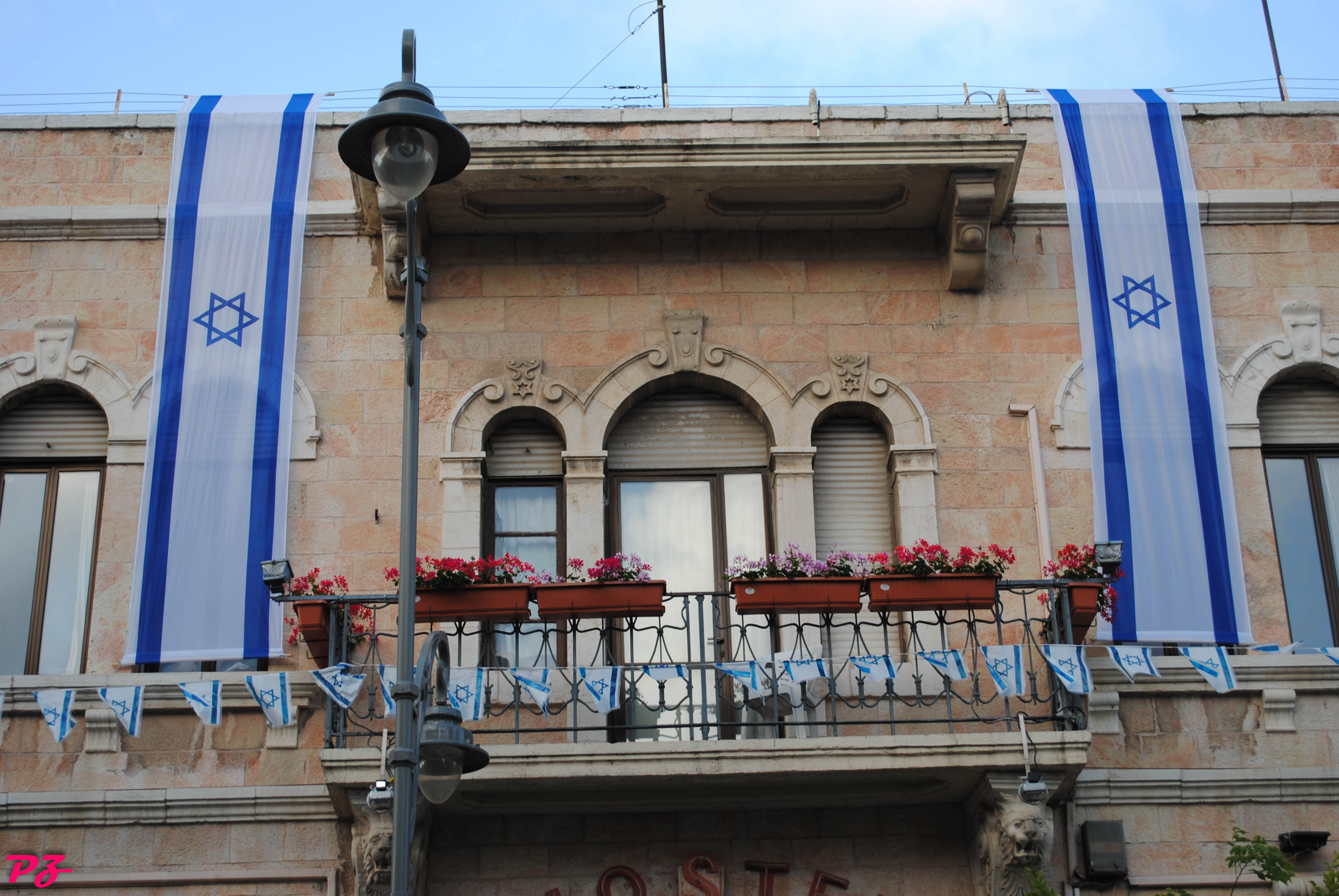 Jerusalem, Jaffa road 44 / Zion square, The Jerusalem Hostel, adorned with flags for Yom Ha'atzmaut - DSC_0800 Jerusalem